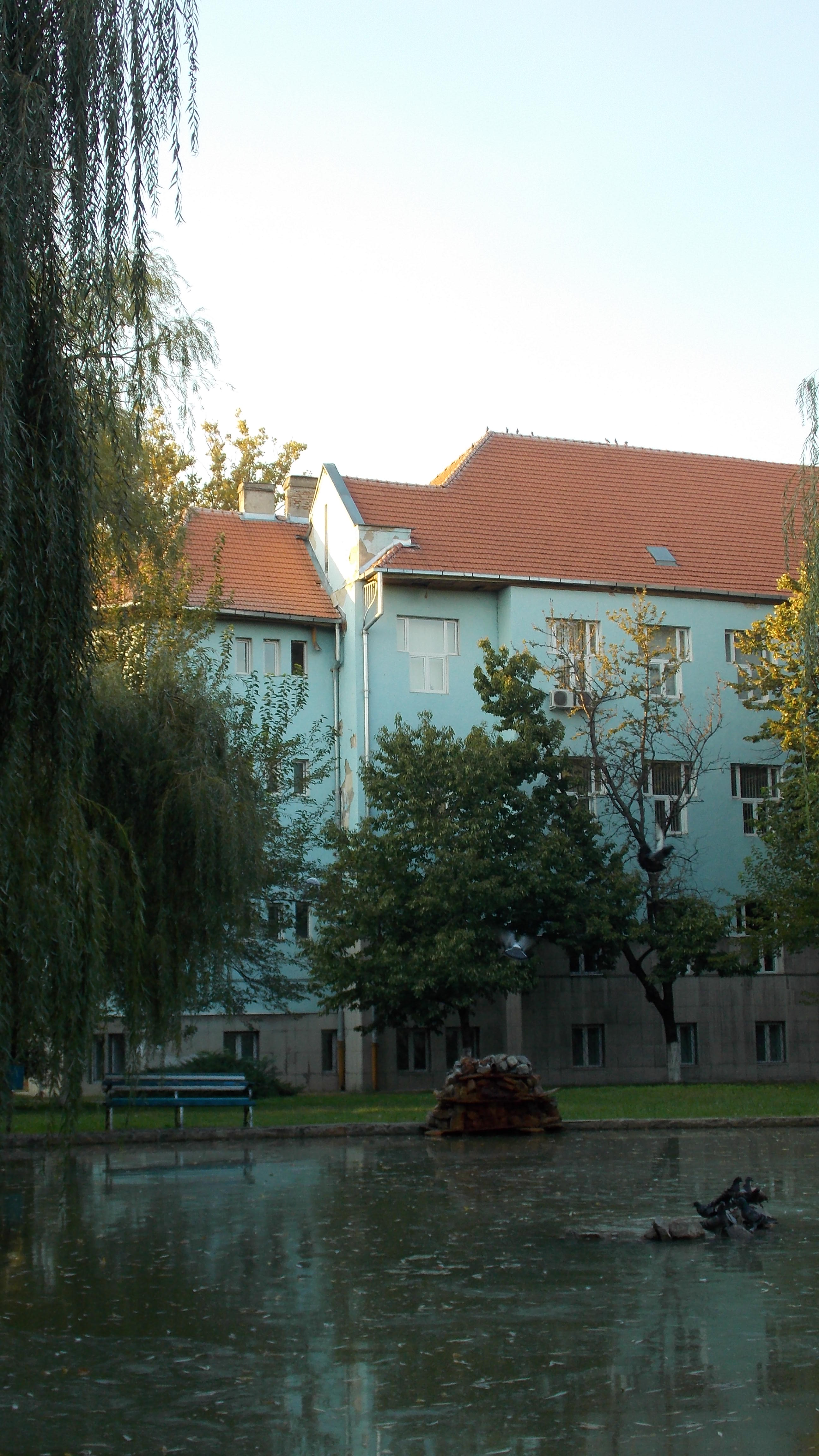 University of Oradea - Buliding C